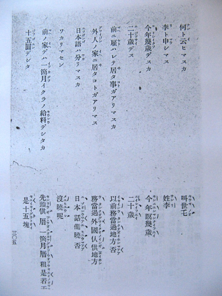 Japo-Chinese Translation: Fuzhou Dialect